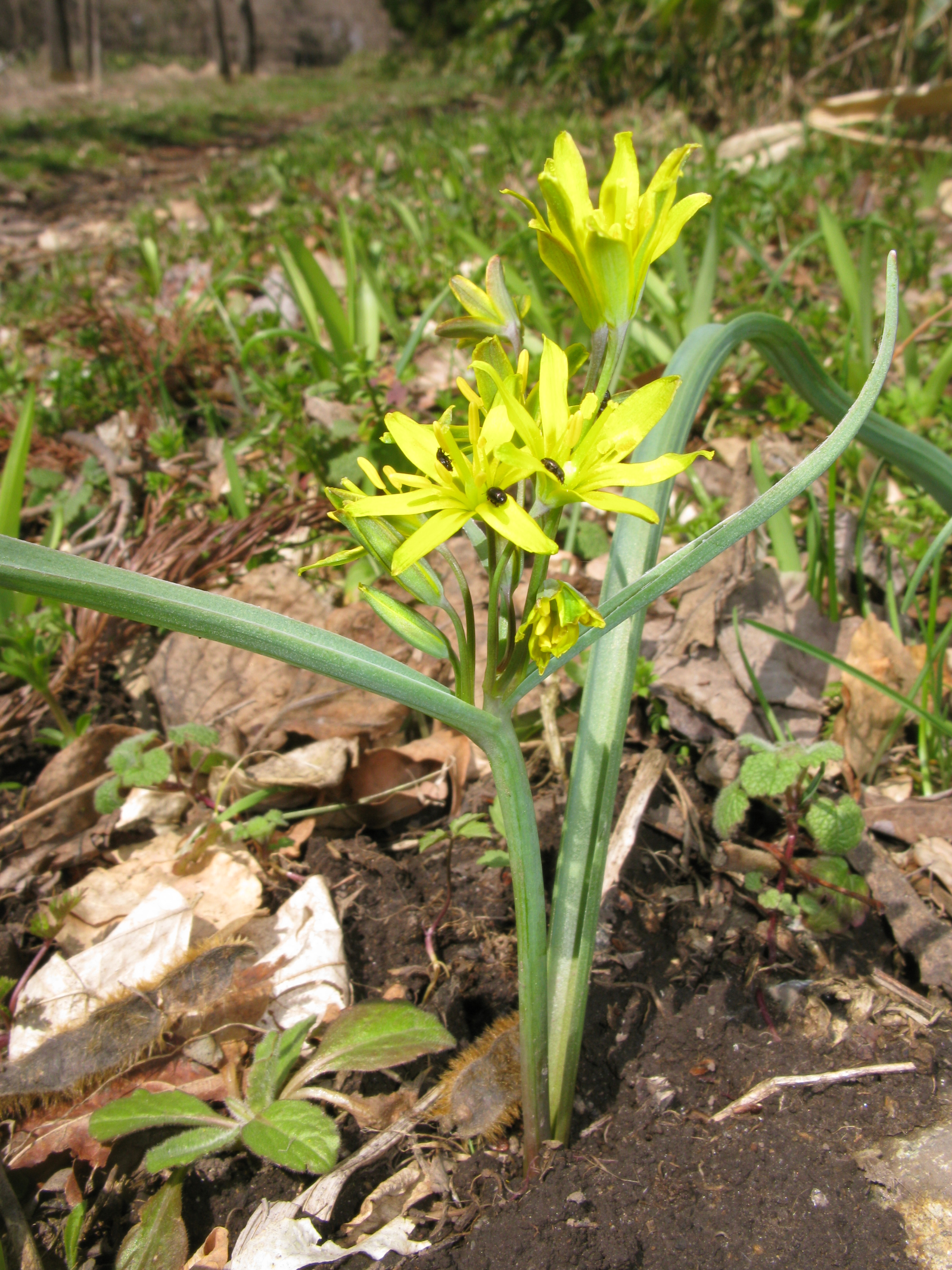 Gagea lutea,Aizu area, Fukushima pref., Japan